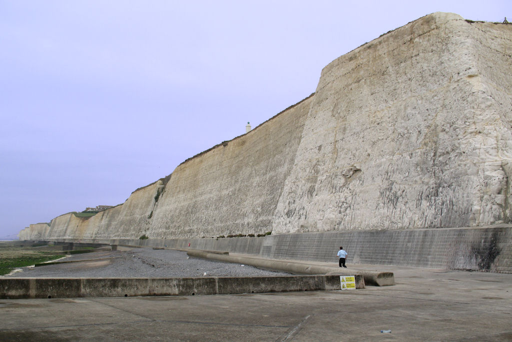 View of the Chalk Cliffs along the Sussex coast at Peacehaven